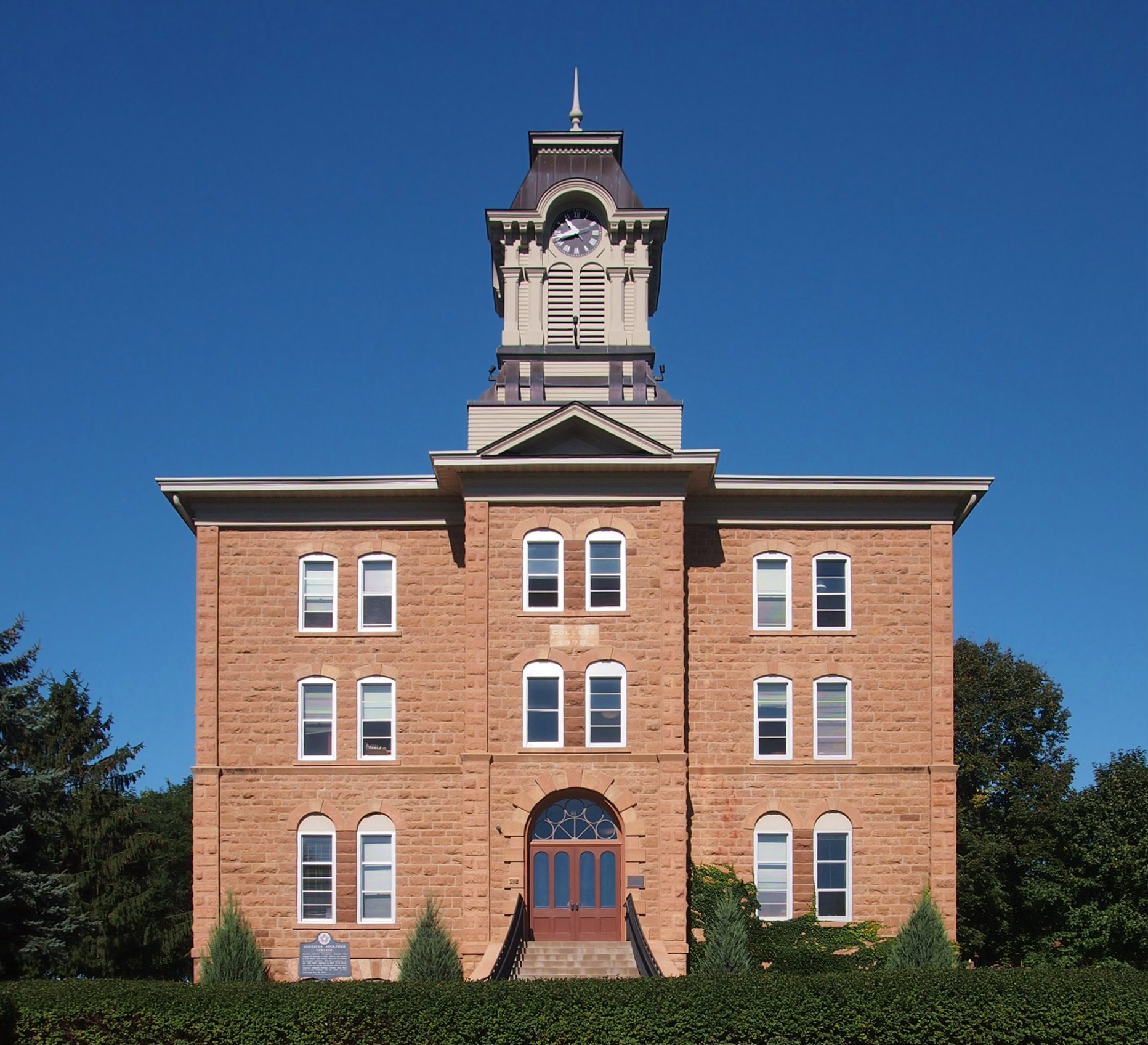 Old Main, Gustavus Adolphus College, St Peter, Minnesota, USA. Viewed from the southeast.